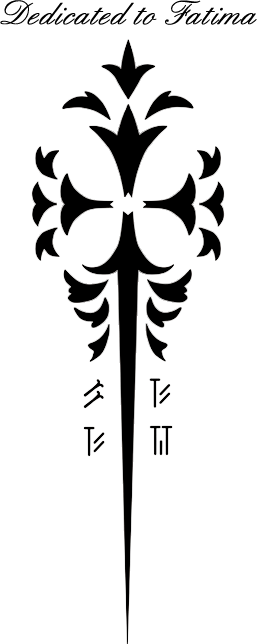 Logo of the japanese comics "The Five Star Stories".